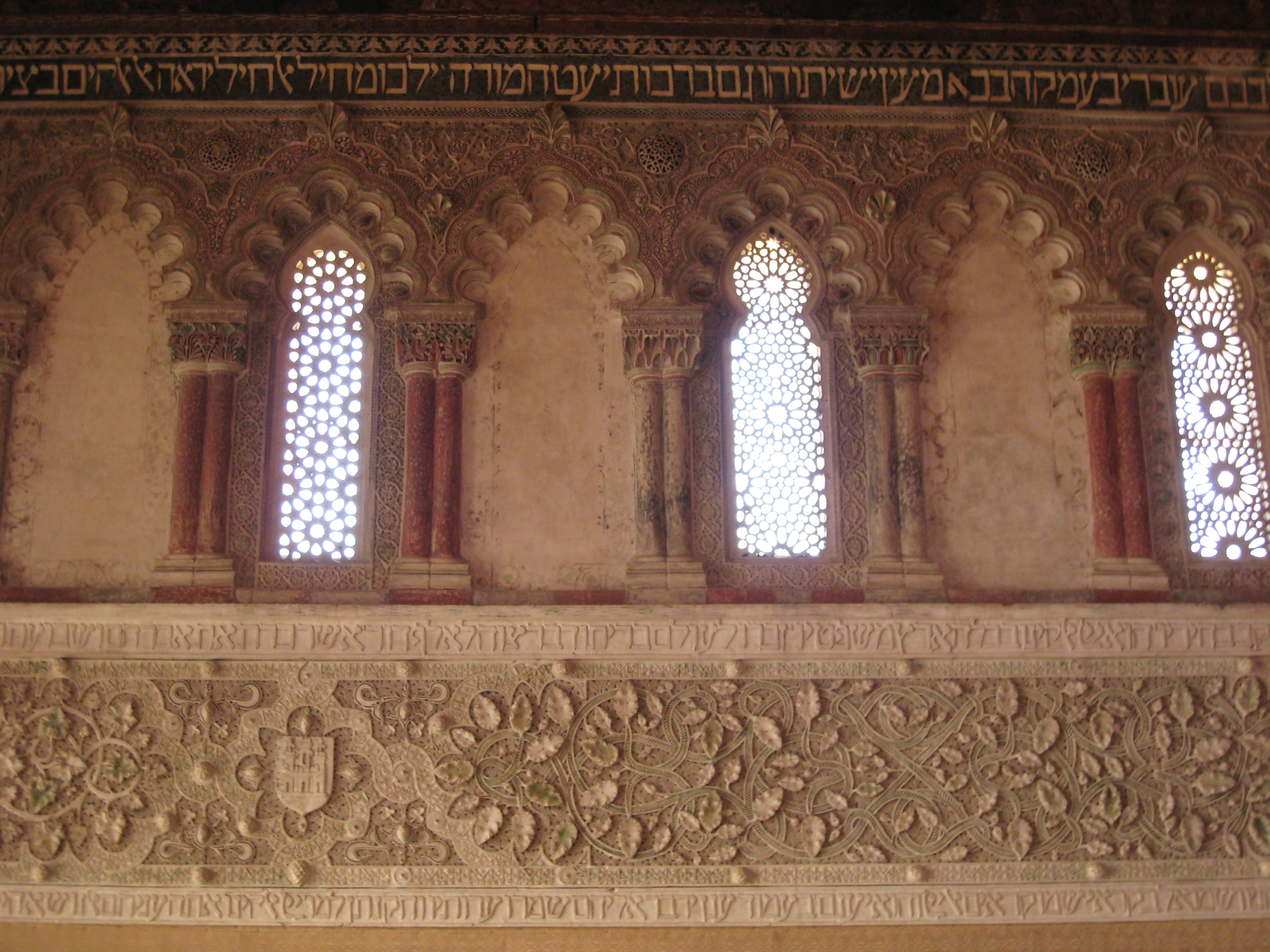 Sinagoga del Tránsito interior , Toledo (Spain)